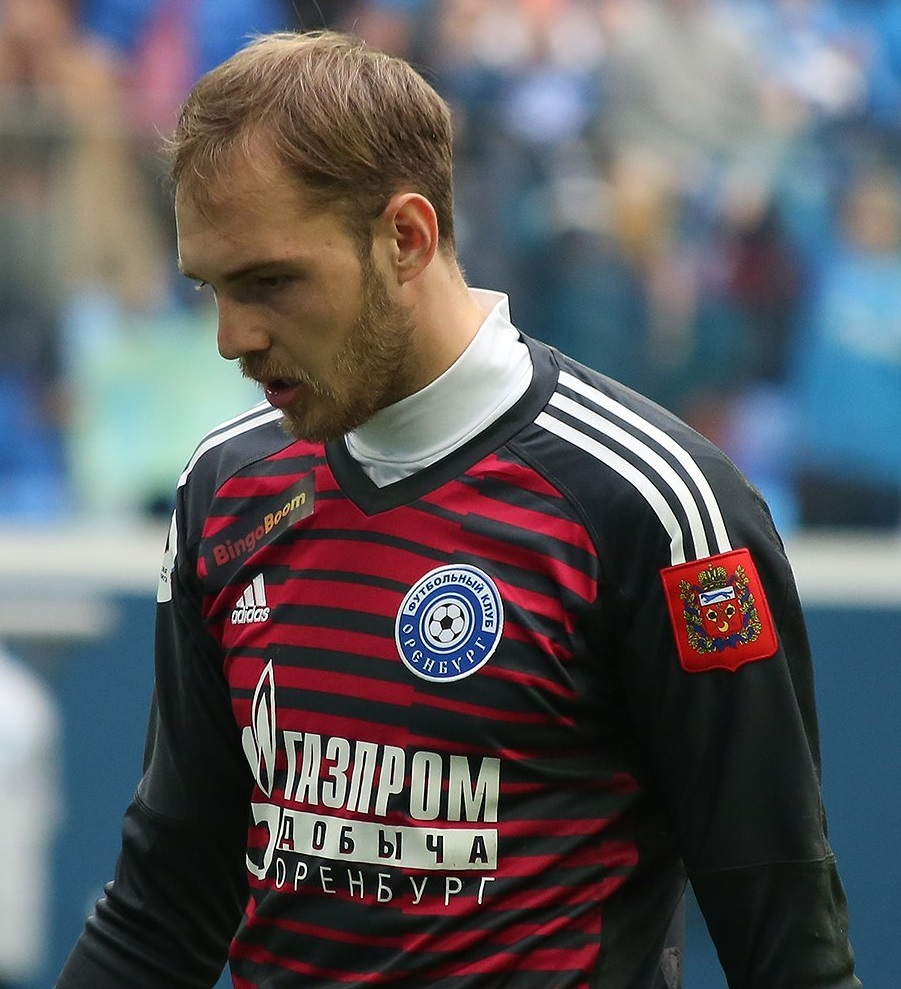 Yevgeny Frolov with FC Orenburg in a game against FC Zenit Saint Petersburg.